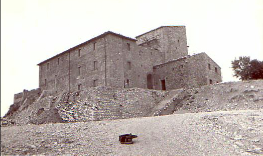 Old view of TodiCastle a castle in Italy before renovation